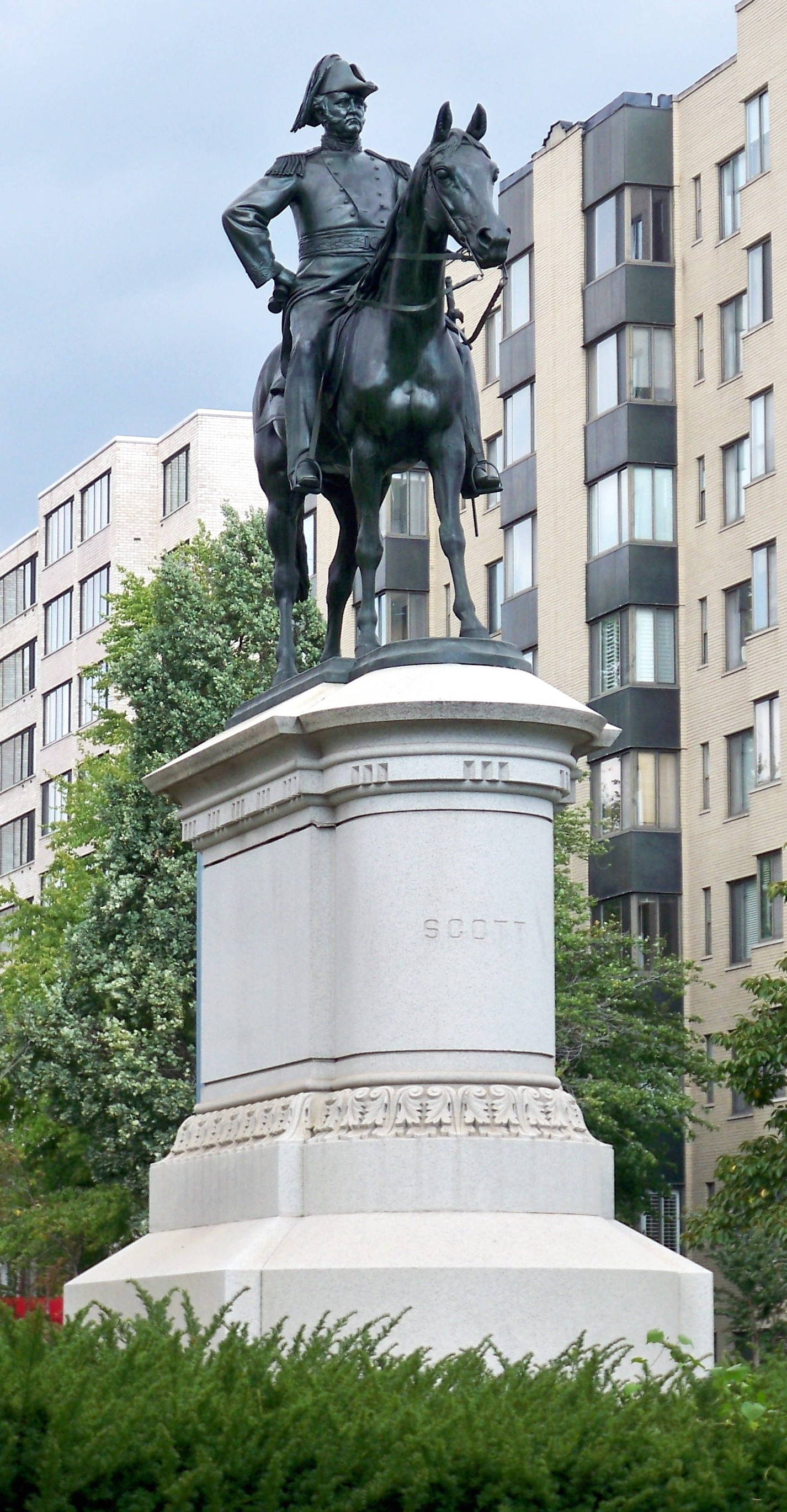 Statue to Winfied Scott in Washington, DC.